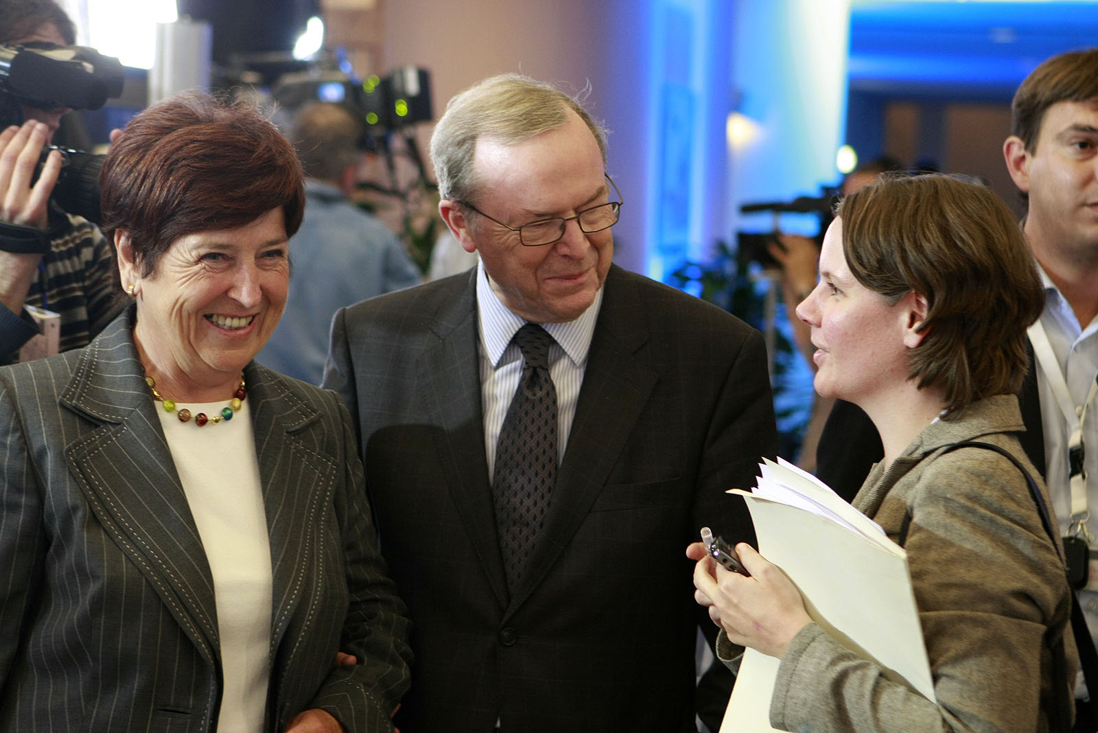 European Elections 2009 EPP